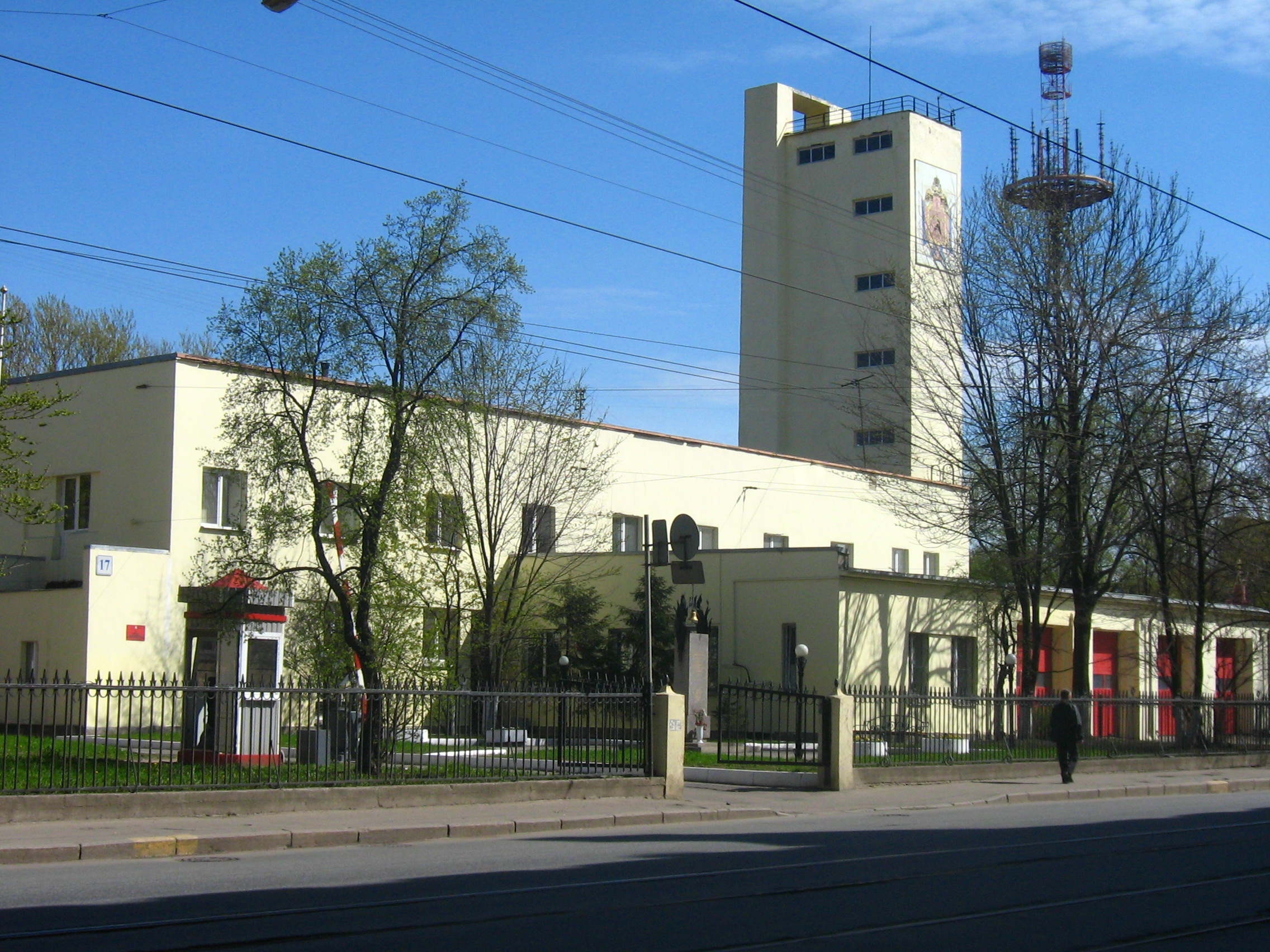 Lesnoy avenue, 17 - fire-station (St.-Petersburg, Russia)